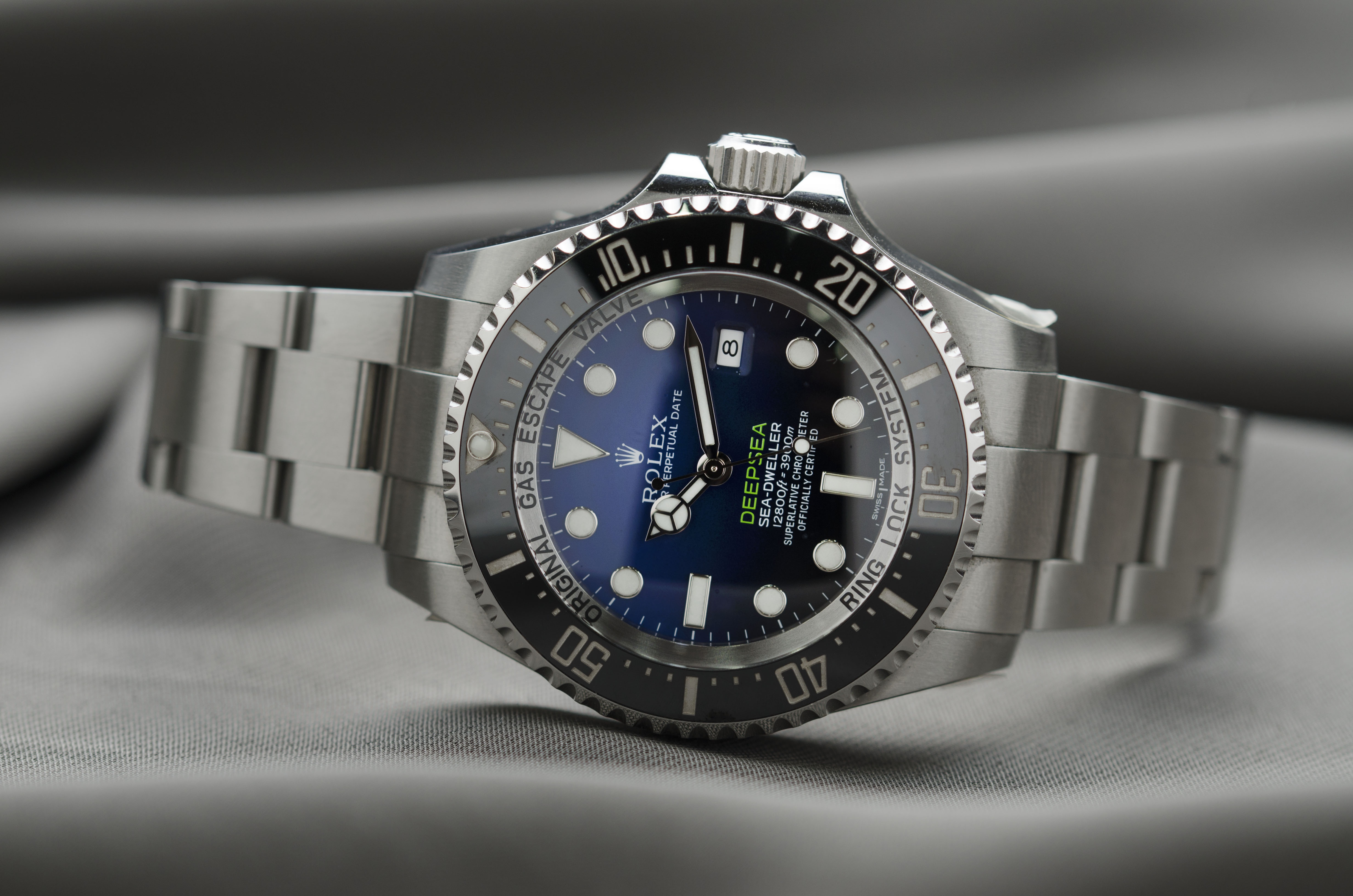 Rolex Deepsea Sea-Dweller 116660 Blue Dial. This Blue Dial model was released to honor James Cameron's 10,898.4 metres (35,756 ft) dive with the Deep-submergence vehicle (DSV) Deepsea Challenger to the Challenger Deep in 2012. The deep blue color on the top of the dial represents water closer to the surface, which slowly darkens to black as light is no longer able to penetrate the depth. The green text for "DEEPSEA" has the same color as the hull of the Deepsea Challenger submersible. Specifications: OYSTER PERPETUAL ROLEX DEEPSEA CATEGORY: Professional watch REFERENCE: 116660 CASE: Oyster (monobloc middle case, screw-down case back and winding crown). Ringlock System case architecture with nitrogen-alloyed steel ring Helium escape valve DIAMETER: 44mm THICKNESS: 17.7mm MATERIALS: 904L steel, case back in grade 5 titanium WINDING CROWN: Screw-down, Triplock triple water-proofness system CROWN GUARD: Integral part of the middle case CRYSTAL: Domed, 5.5 mm-thick, scratch-resistant, synthetic sapphire. BEZEL: Unidirectional rotatable 60-minute graduated; Cerachrom insert made of ceramic, numerals and graduations coated in platinum via PVD WATERPROOFNESS: 3,900 m (12,800 ft) MOVEMENT: Calibre 3135, Manufacture Rolex Mechanical movement, bidirectional self-winding via Perpetual rotor PRECISION: Officially certified Swiss chronometer (COSC) FUNCTIONS: Centre hour, minute and seconds hands Instantaneous date with rapid setting, Stop-seconds for precise time setting OSCILLATOR: Frequency: 28,800 beats / hour (8 Hz) Paramagnetic blue Parachrom hairspring with Breguet overcoil Large balance wheel with variable inertia, high-precision regulating via gold Microstella nuts POWER RESERVE: Approximately 48 hours BRACELET: Oyster; folding Oysterlock safety clasp with Rolex Glidelock system for fine adjustment of bracelet length, and Fliplock extension link